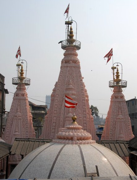 Tri Spire Shikhar of Swaminarayan Temple Mumbai (Bhuleshwar)